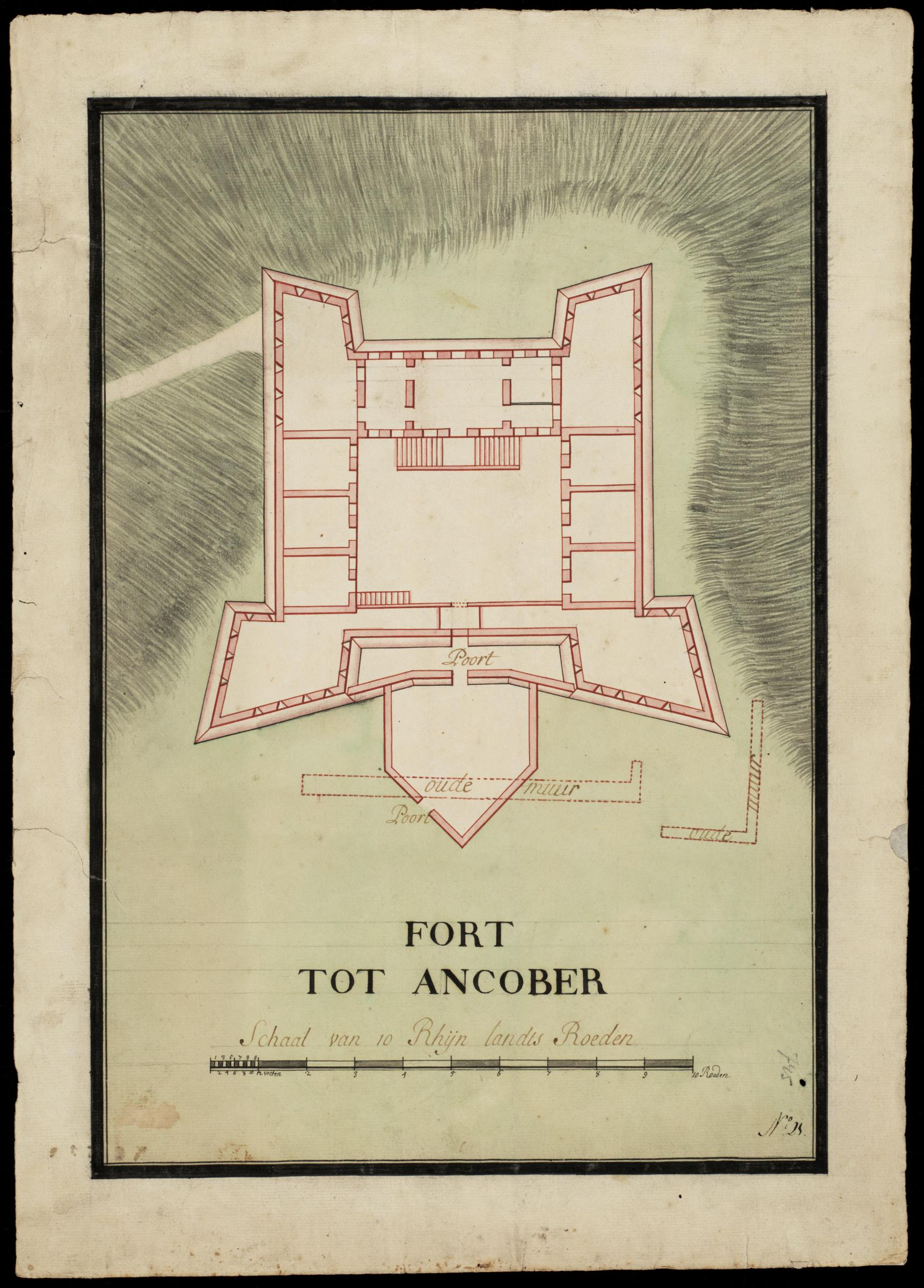 Floor plan of Ankobra Fort. Title in the Leupe catalogue: Platte grond van het Fort tot Ancober. Fort tot Ancober. Notes on reverse: No. 38 Fort Ancober. Register 8, Deel 1, Folio 36, Portefeuille .. [inscribed on a blue label]/455 [stamped in bold figures on a small label]. Bottom right: No: 25 / 745 [in pencil].